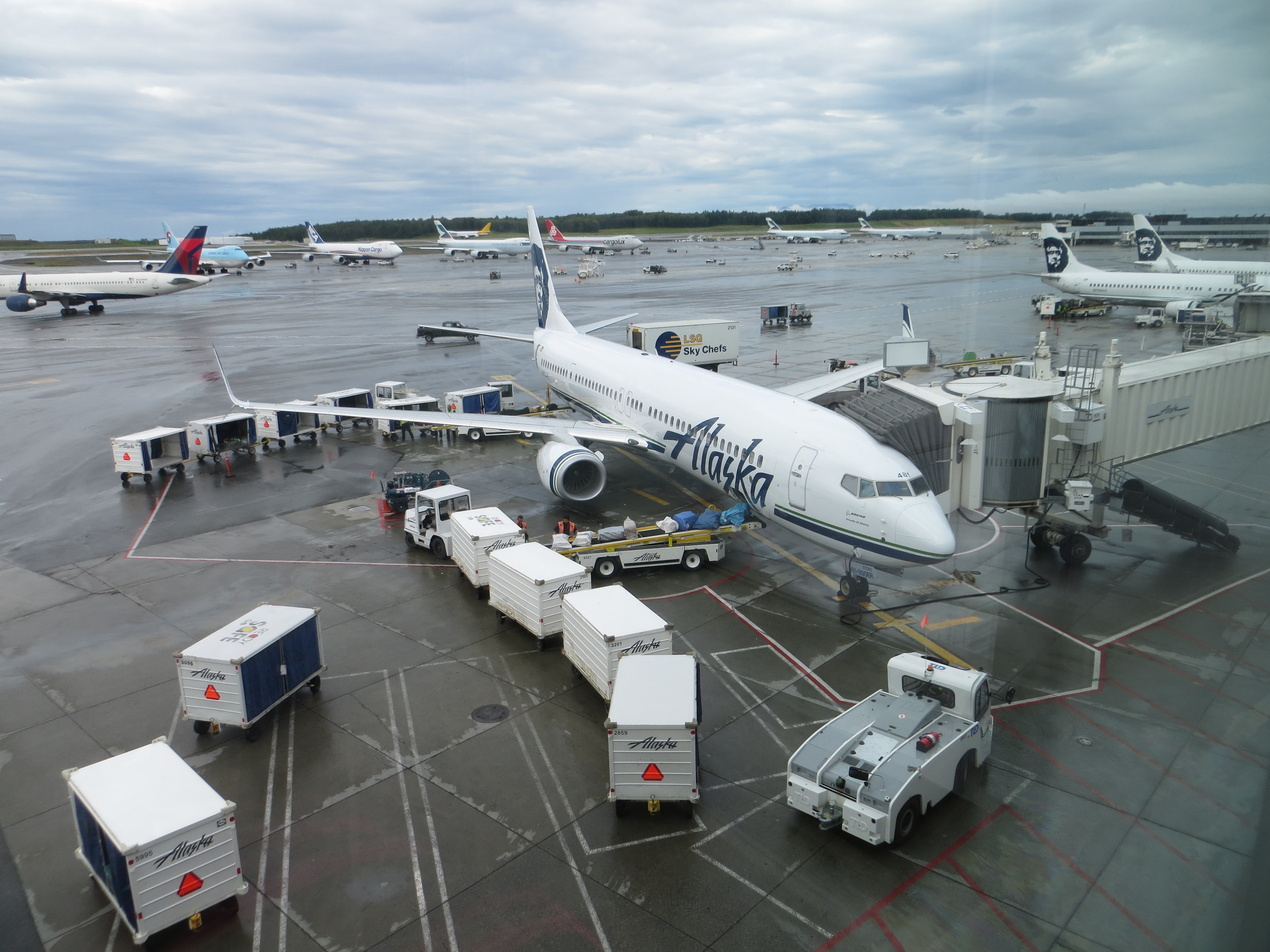 Alaska Airlines Boeing 737-900ER registered N481AS at Ted Stevens Anchorage International Airport. Operating Flight 92 to Seattle